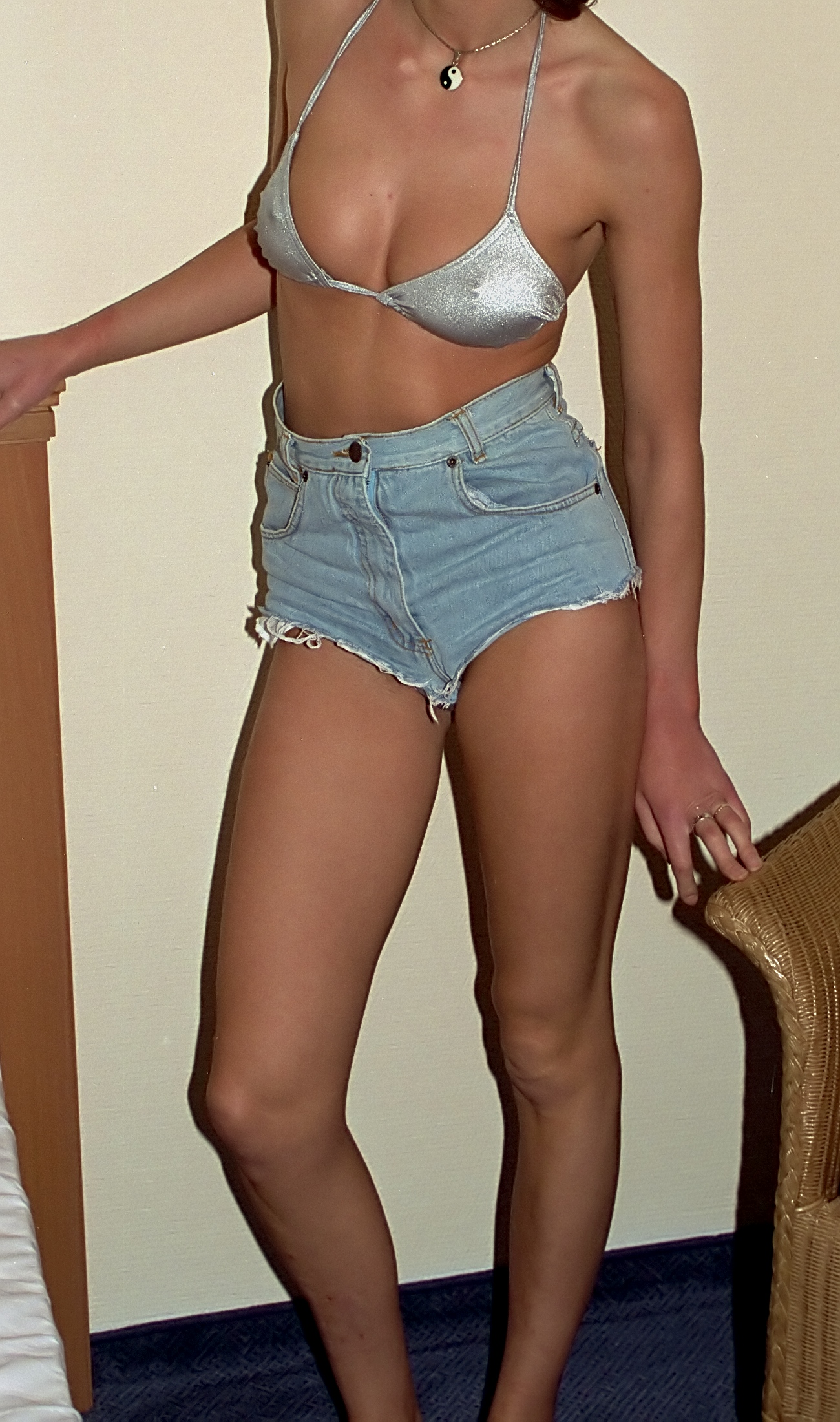 Fotomodel wearing a silver color bikini and a self cropped jean shorts, showing her buttock